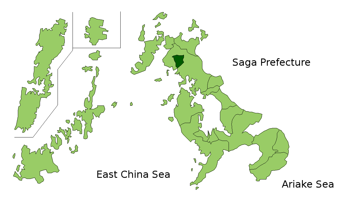 The location of Saza in Nagasaki Prefectuur, Japan